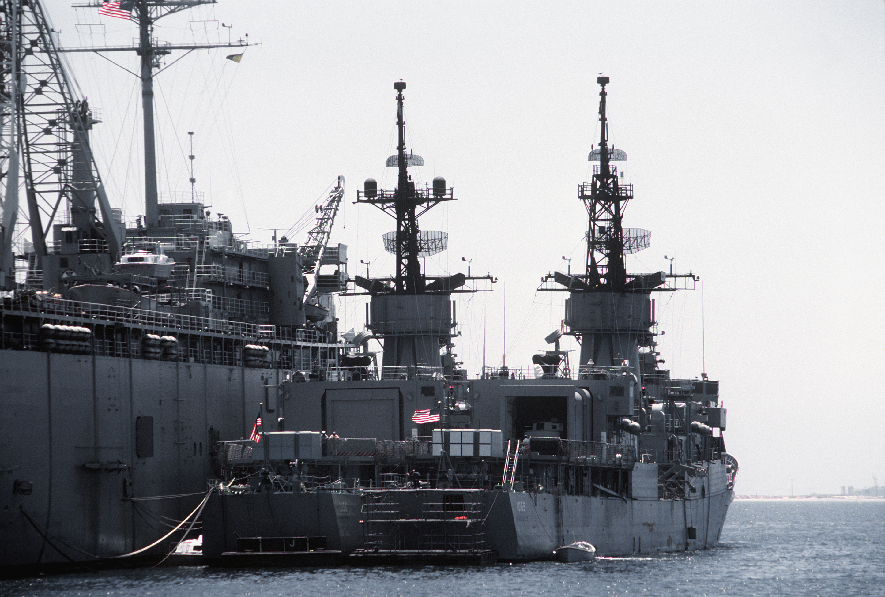 The U.S. Navy frigates USS Bagley (FF-1069), with opened helicopter hangar, and USS Meyerkord (FF-1058) docked next to the destroyer tender USS Samuel Gompers (AD-37) at San Diego, California (USA), on 1 July 1982.